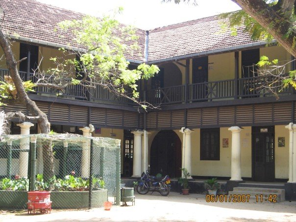 Year 7 building, the oldest building in Royal College